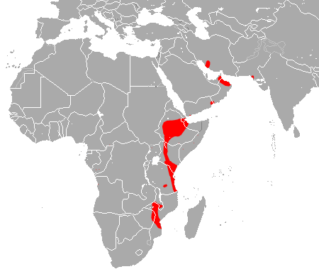 Persian Trident Bat (Triaenops persicus) range